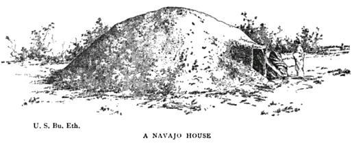 19th century knowledge indian lore navaho house (hogan).